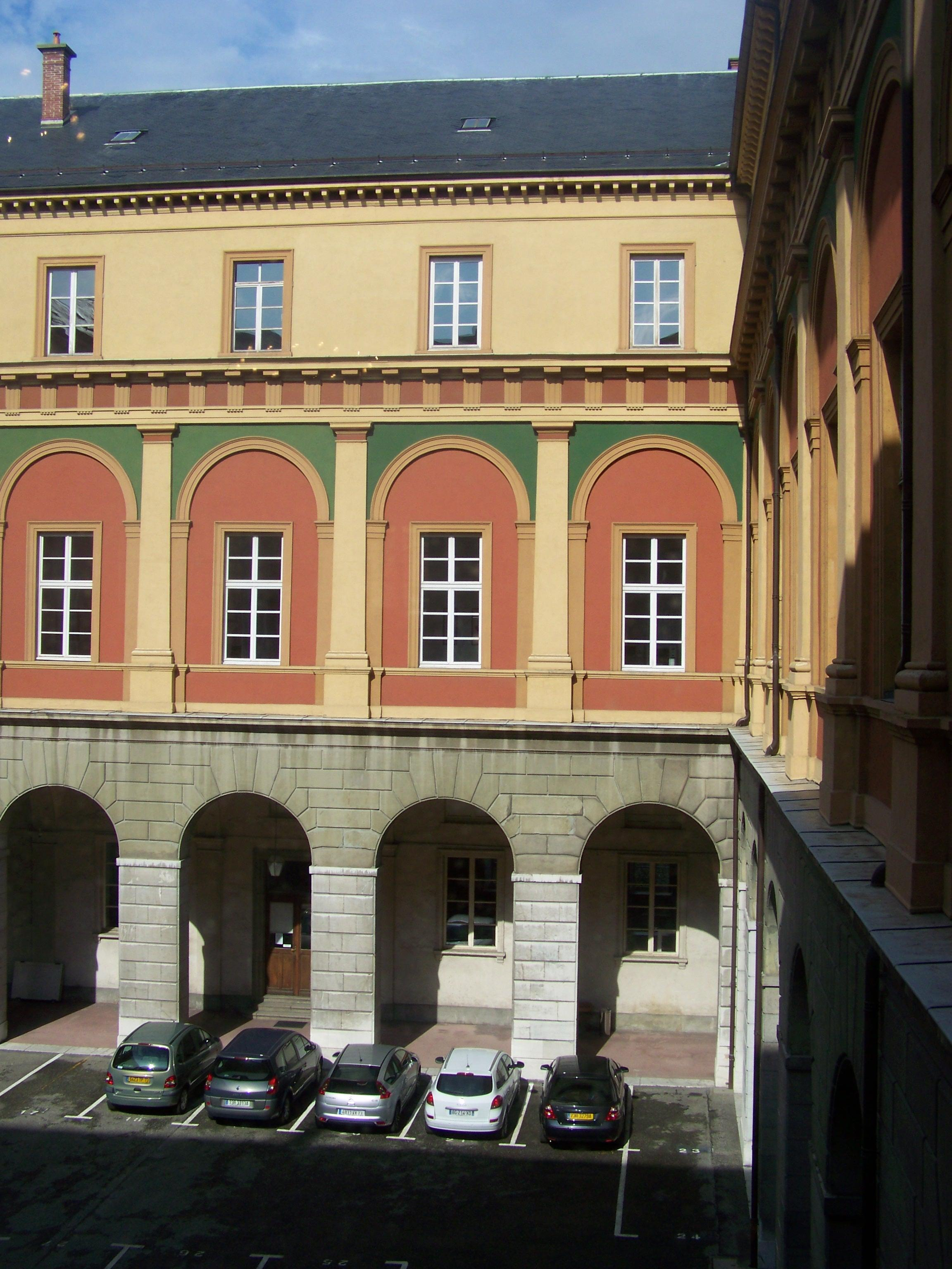 Sight of the inner court of Chambéry courthouse in Savoie, France.